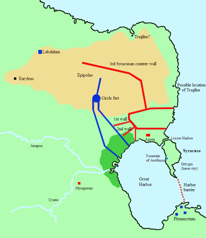 Map of the region of Athenian siege of Syracuse